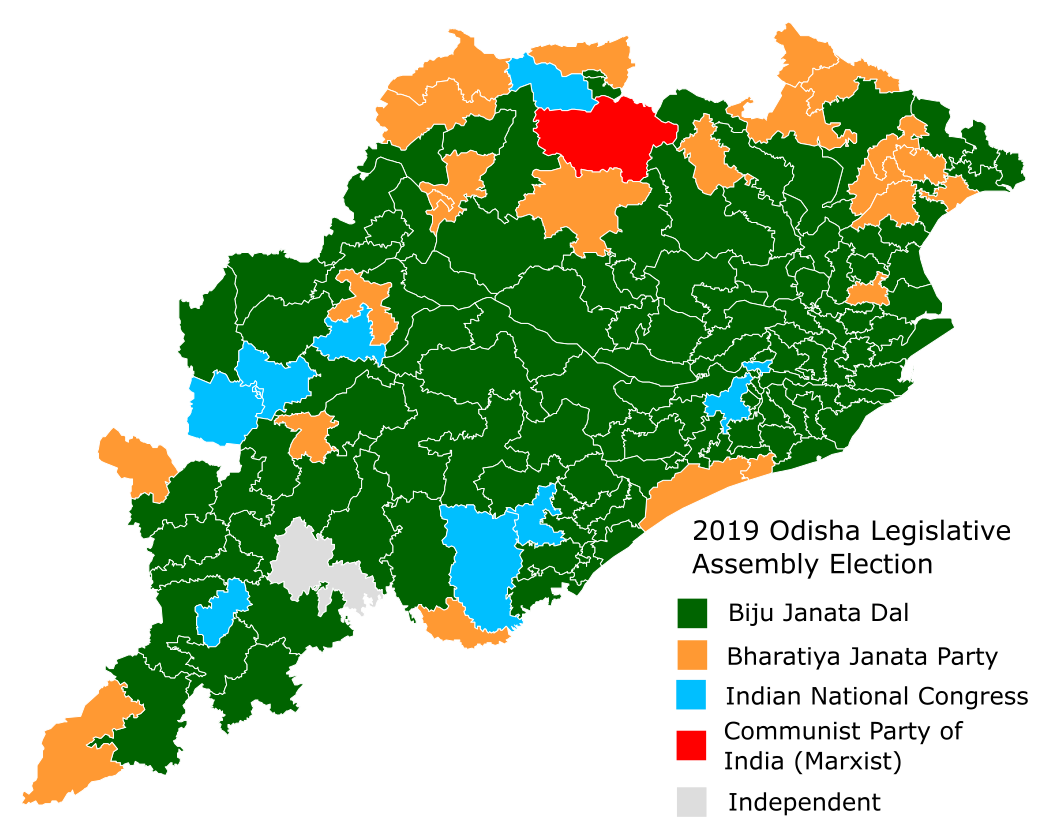 Results of the 2019 Odisha Legislative Assembly elections